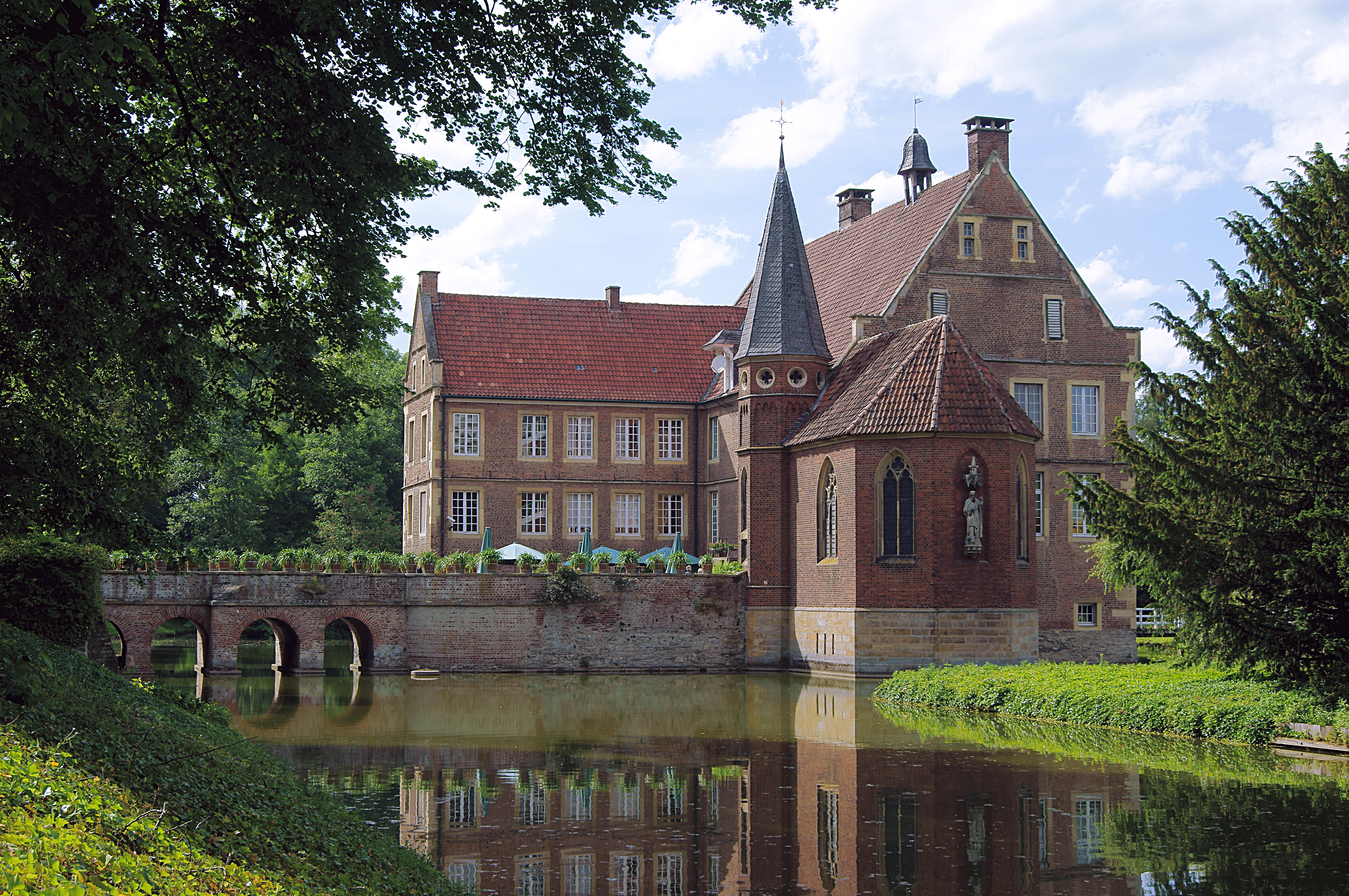 Burg Hülshoff is a water castle in the region of Münster. It is the birthplace of the poetesse Annette von Droste-Hülshoff (1797-1848).